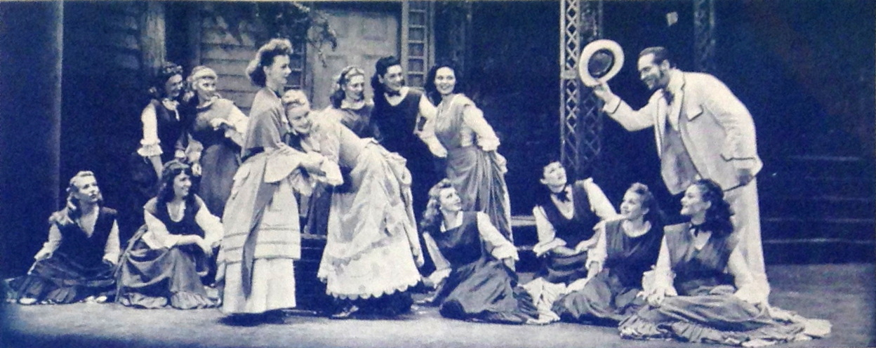 Scene from the original production of Carousel. Song seems to be "Mister Snow", with Eric Mattson (far right) as Enoch Snow, Iva Withers (standing, forward, at mid-left) is Julie and Margot Moser (bent over) is Carrie.